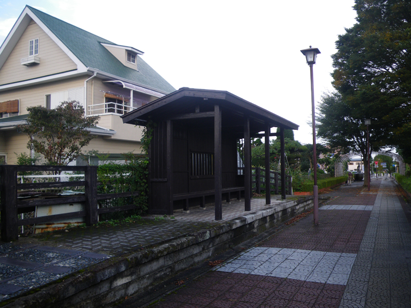 A vacant lot of Daikōmae Station(Disused train stations), closed in 1968. Ōtawara, Tochigi, Japan.